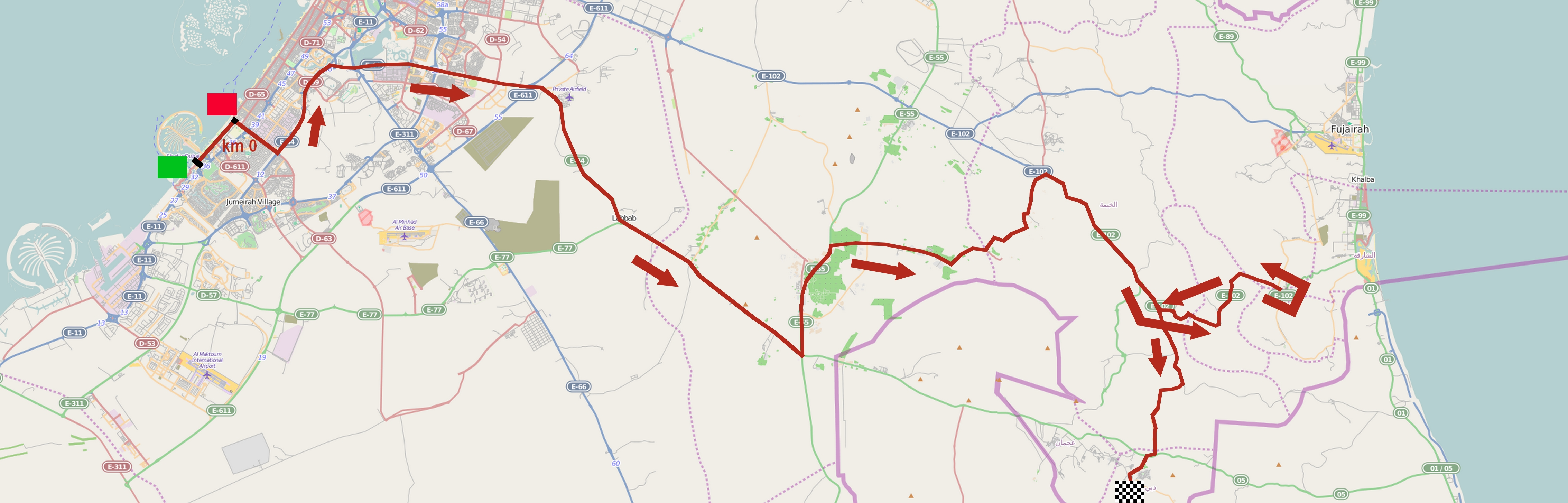 Parcours de la troisième étape du Dubaï Tour 2015. This map may be incomplete, and may contain errors. Don't rely solely on it for navigation.